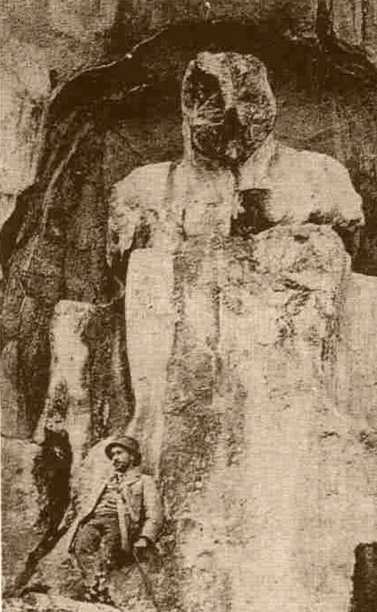 Partial duplicate of a late 19th-early 20th century French postcard with Manisa, Turkey as theme, and showing the Hittite statue of the Mother Goddess Kybele in Mount Sipylus near the city, erroneously attributing the statue to Niobe, who is actually associated with the "Weeping Rock" natural formation in the same mountain